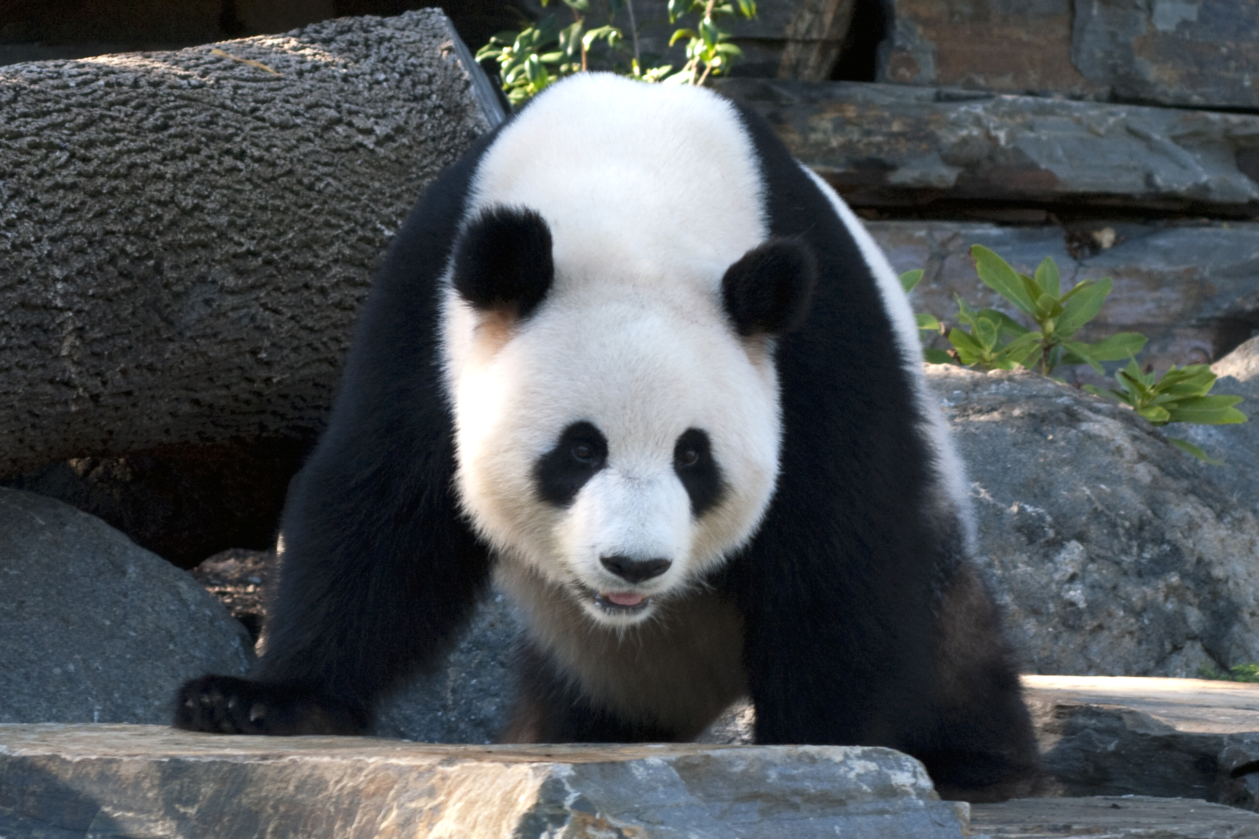 Panda (Ailuropoda melanoleuca) at the Adelaide Zoo in South Australia.